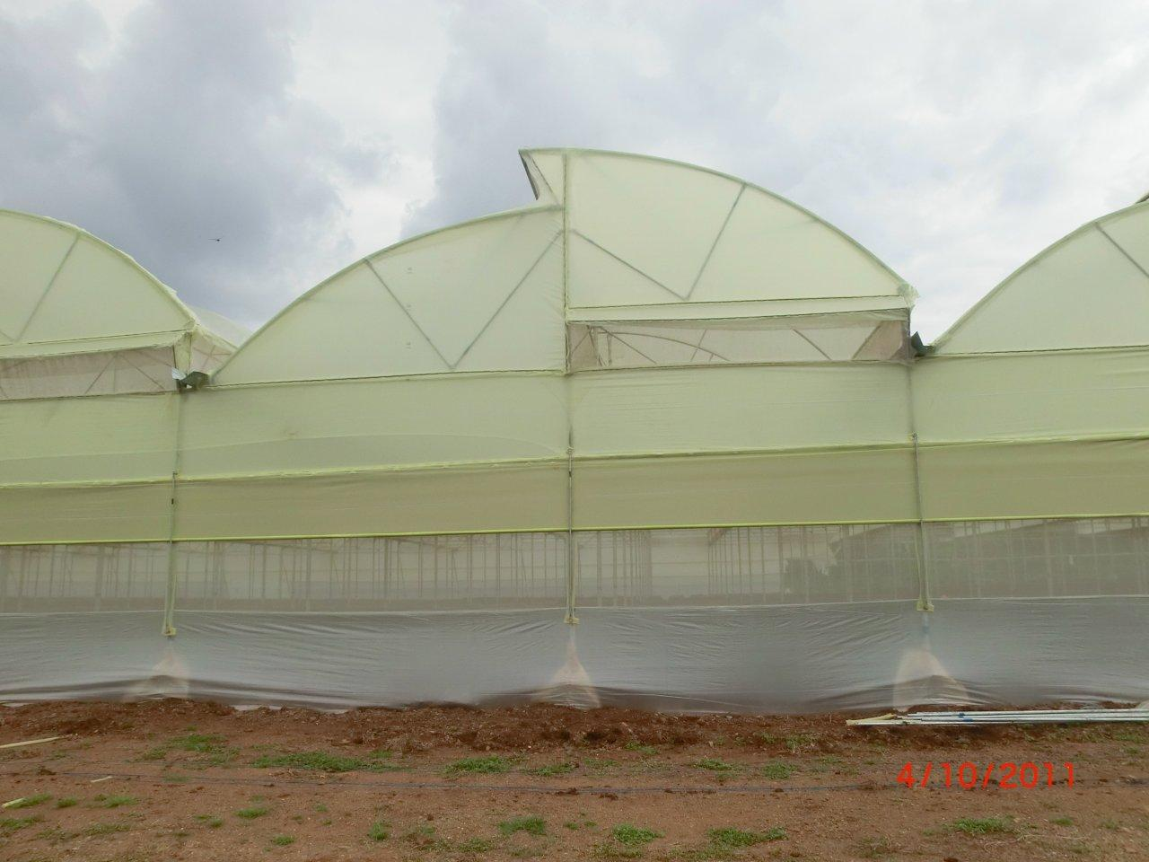 MAXXIVENT is a patented and National Award winning structure. This structure has maximum natural vents which helps maintain the humidity and allows fresh air inside the greenhouse. The insect nets in this structure ensures no pests and insects enter inside the greenhouse. High yields and increased revenue to cultivators creates a win-win situation.